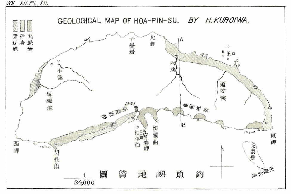 A geological map of Hoa-pin-su (Uotsuri-shima, 魚釣島) drawn by H.KUROIWA in 1900 (Meiji 33).